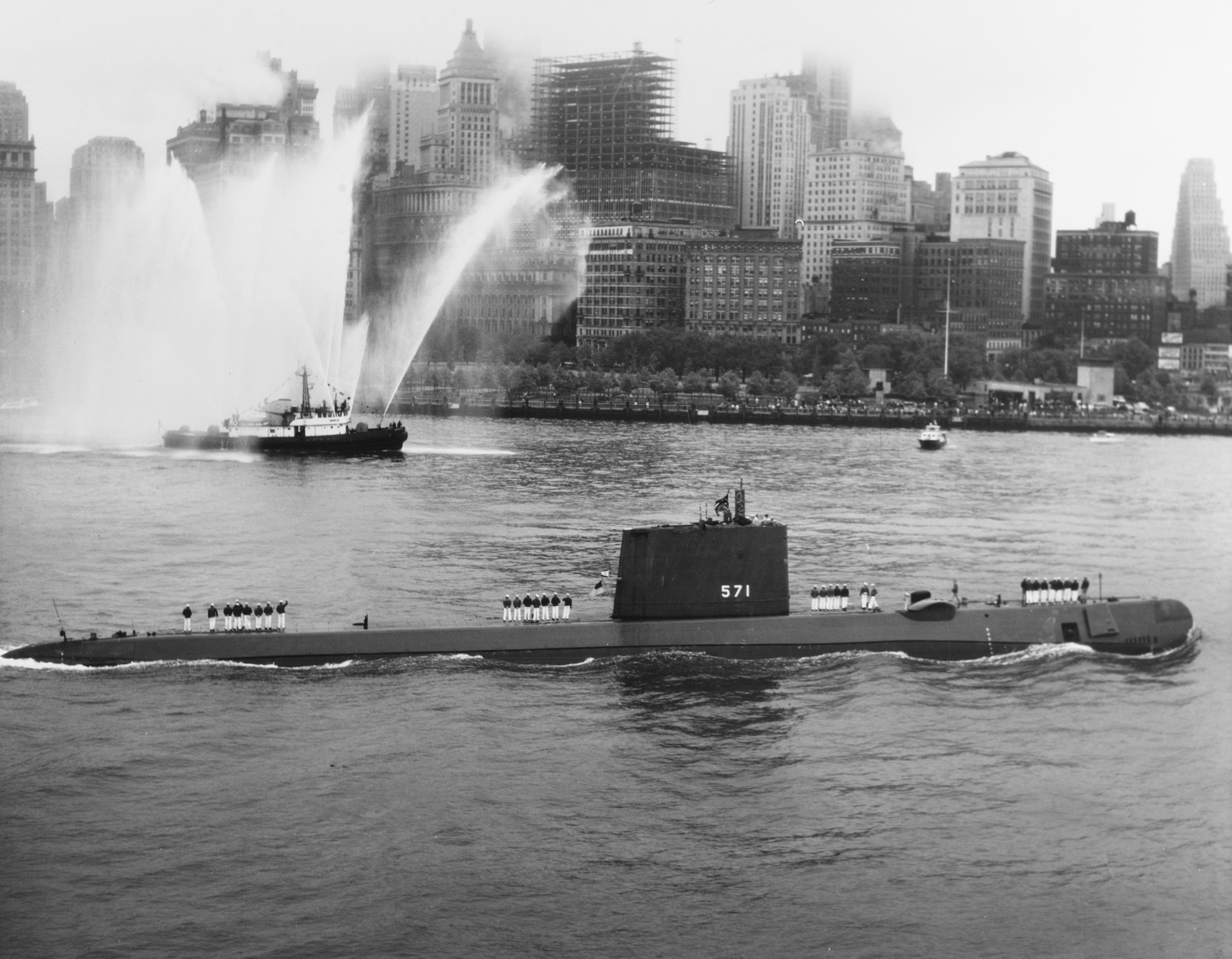 USS Nautilus (SSN-571) entering New York harbor (USA) on 25 August 1958, after her voyage under the North Pole.